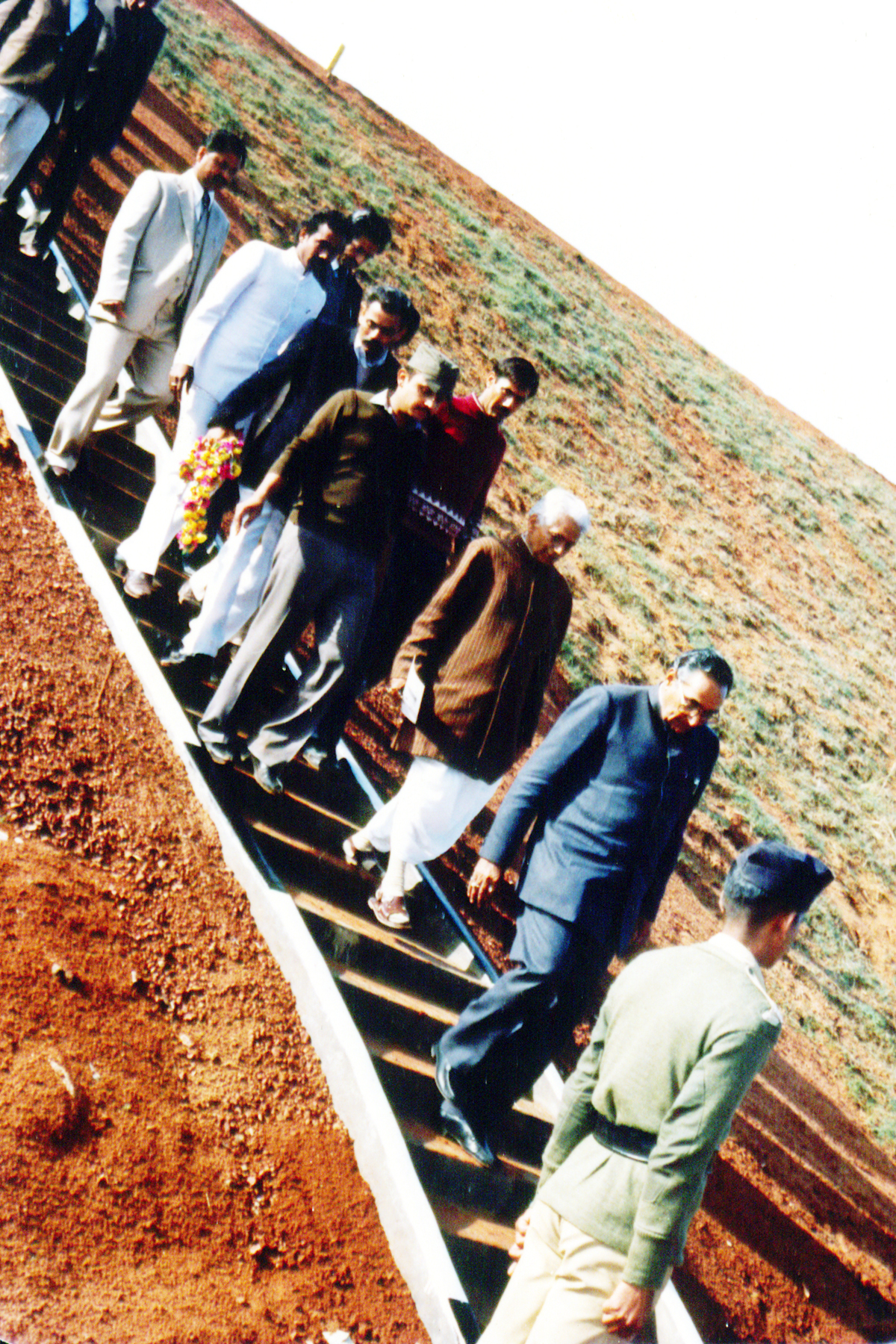 Pandit Ram Kishore Shukla following Motilal Vora leading to their motorcade succeeding an inspection of Bansagar Dam in Madhya Pradesh in 1985